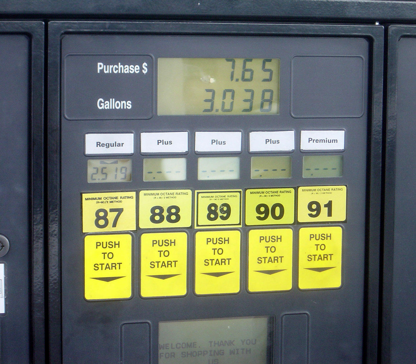 A gas station featuring five Octane ratings, somewhere near the Missouri/Iowa border (can't remember...). Photo taken by Bobak Ha'Eri. September 3, 2006. Please observe license and properly cite in use outside Wikipedia.